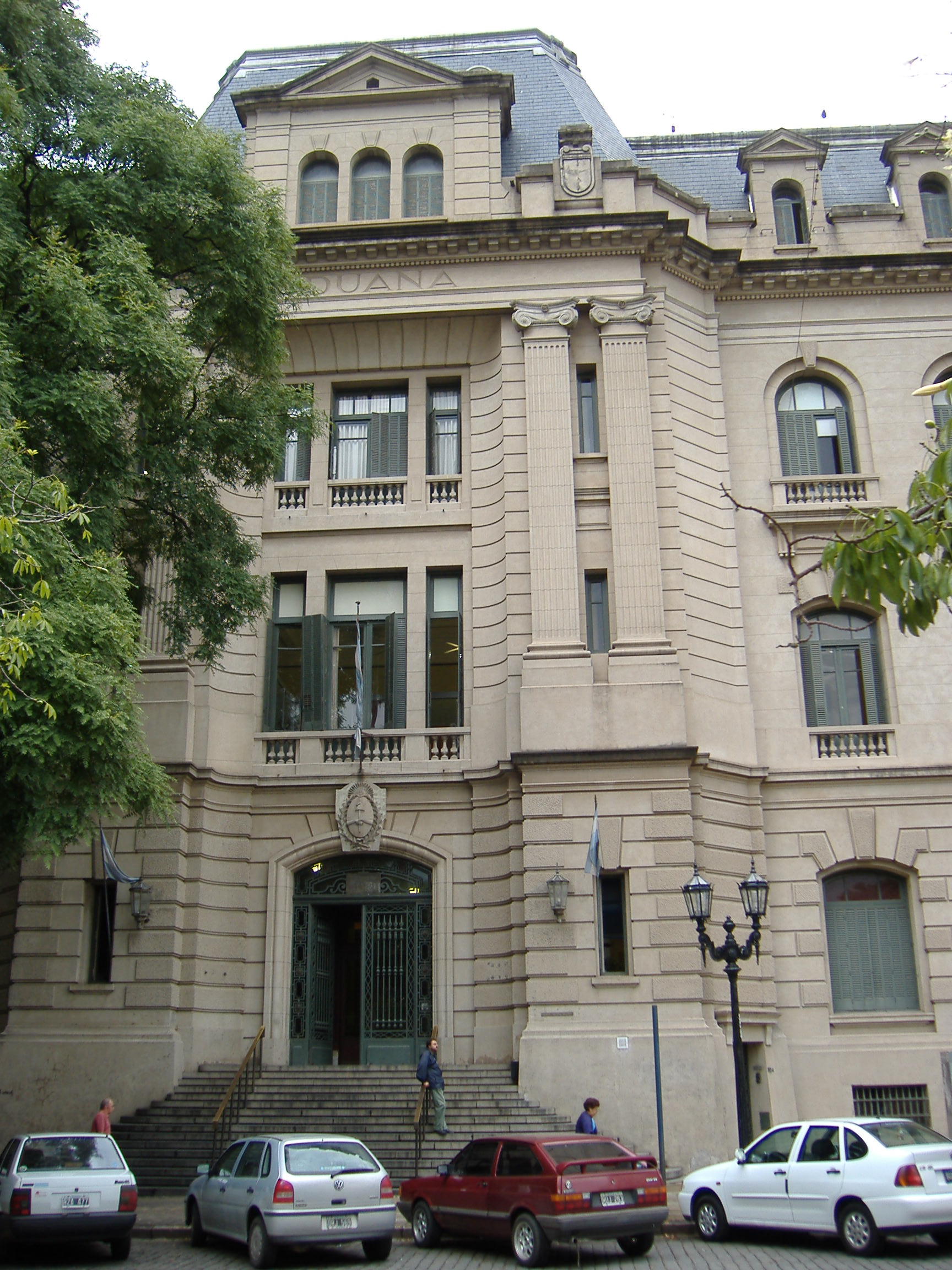 The former Customs Office of Rosario, Argentina and current seat of government of the province of Santa Fe. I, Pablo D. Flores, took this picture on 28 February 2006.